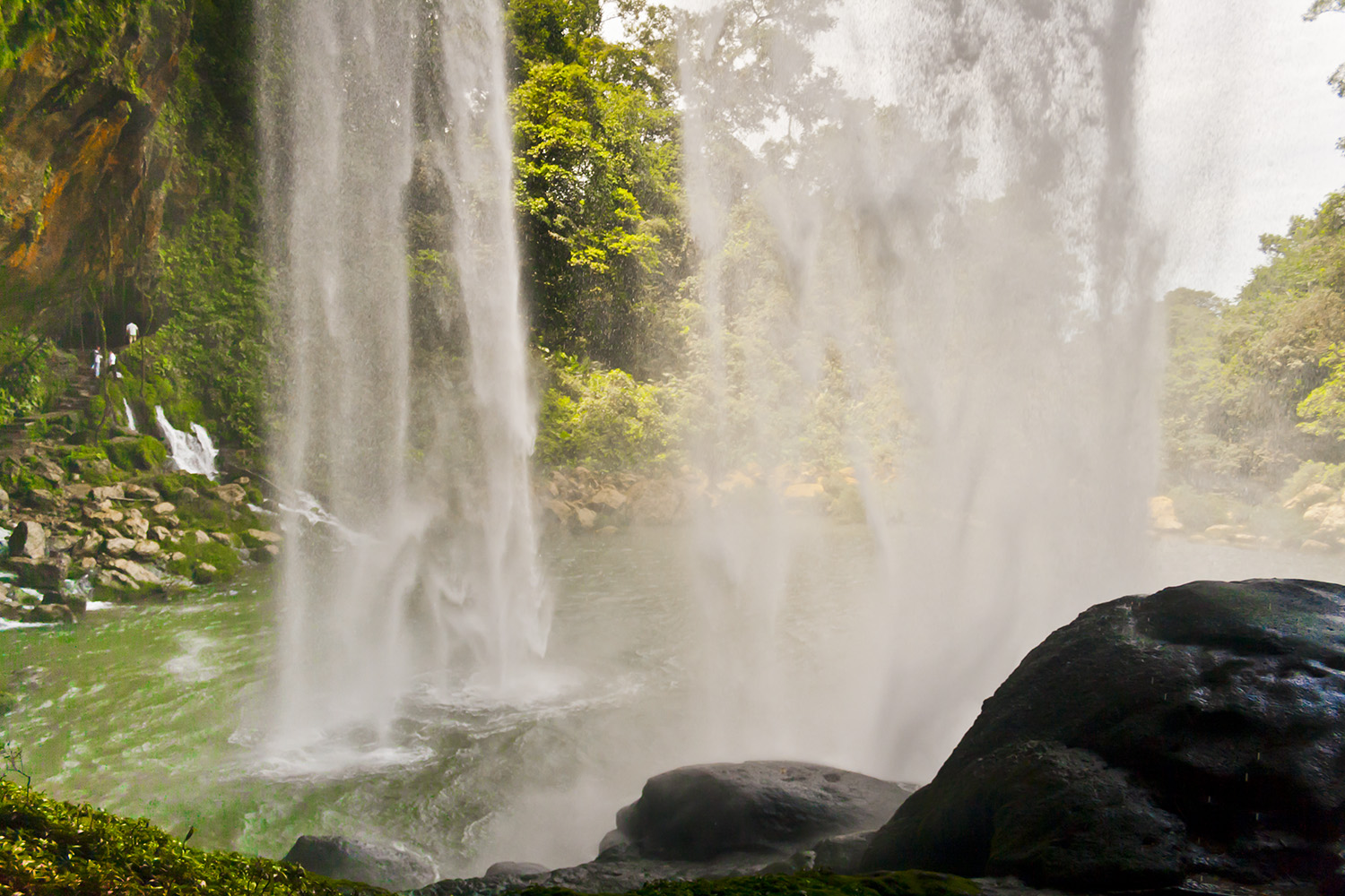 view behind Misolha